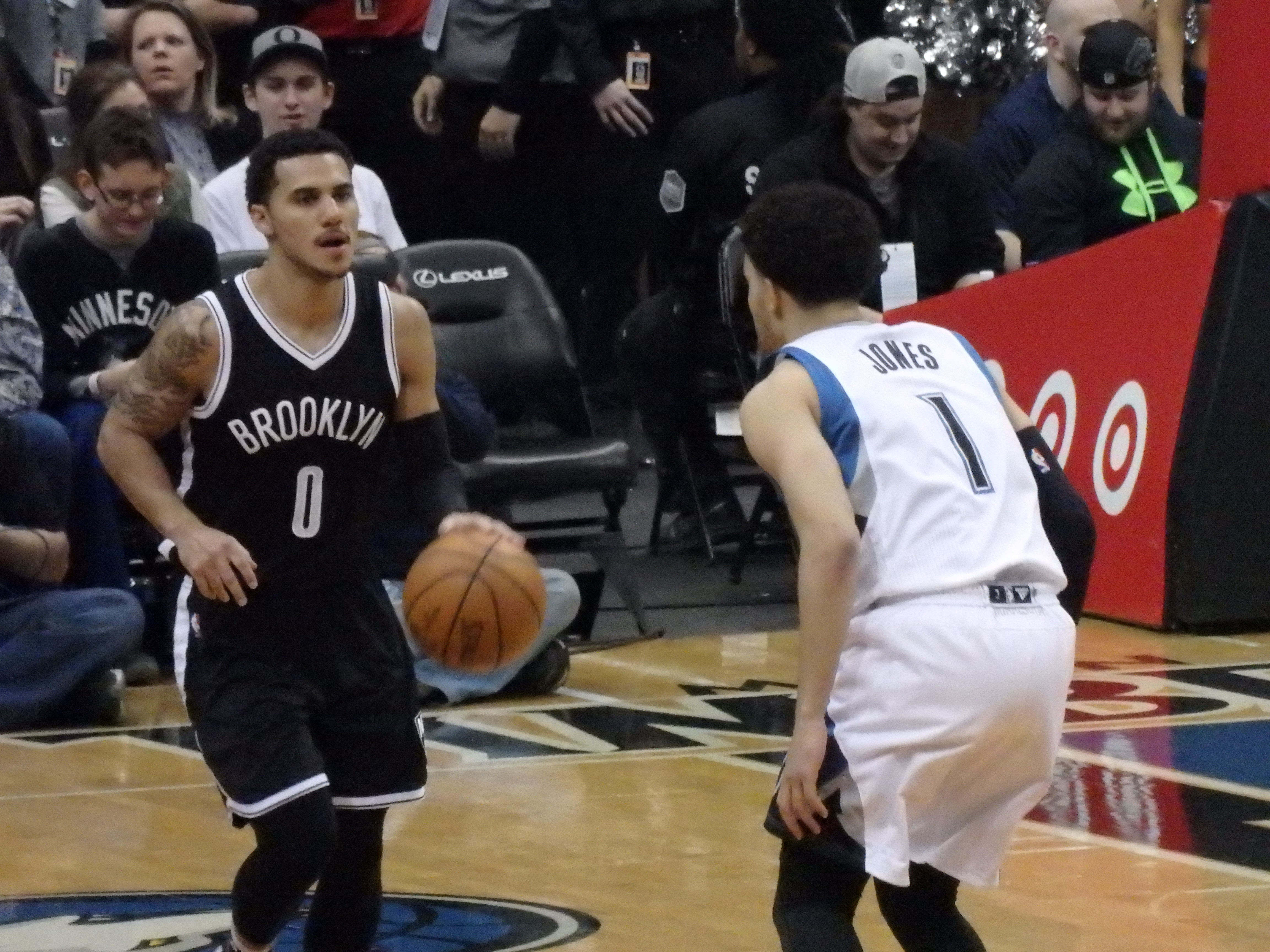 Shane Larkin playing for Brooklyn Nets in 2016